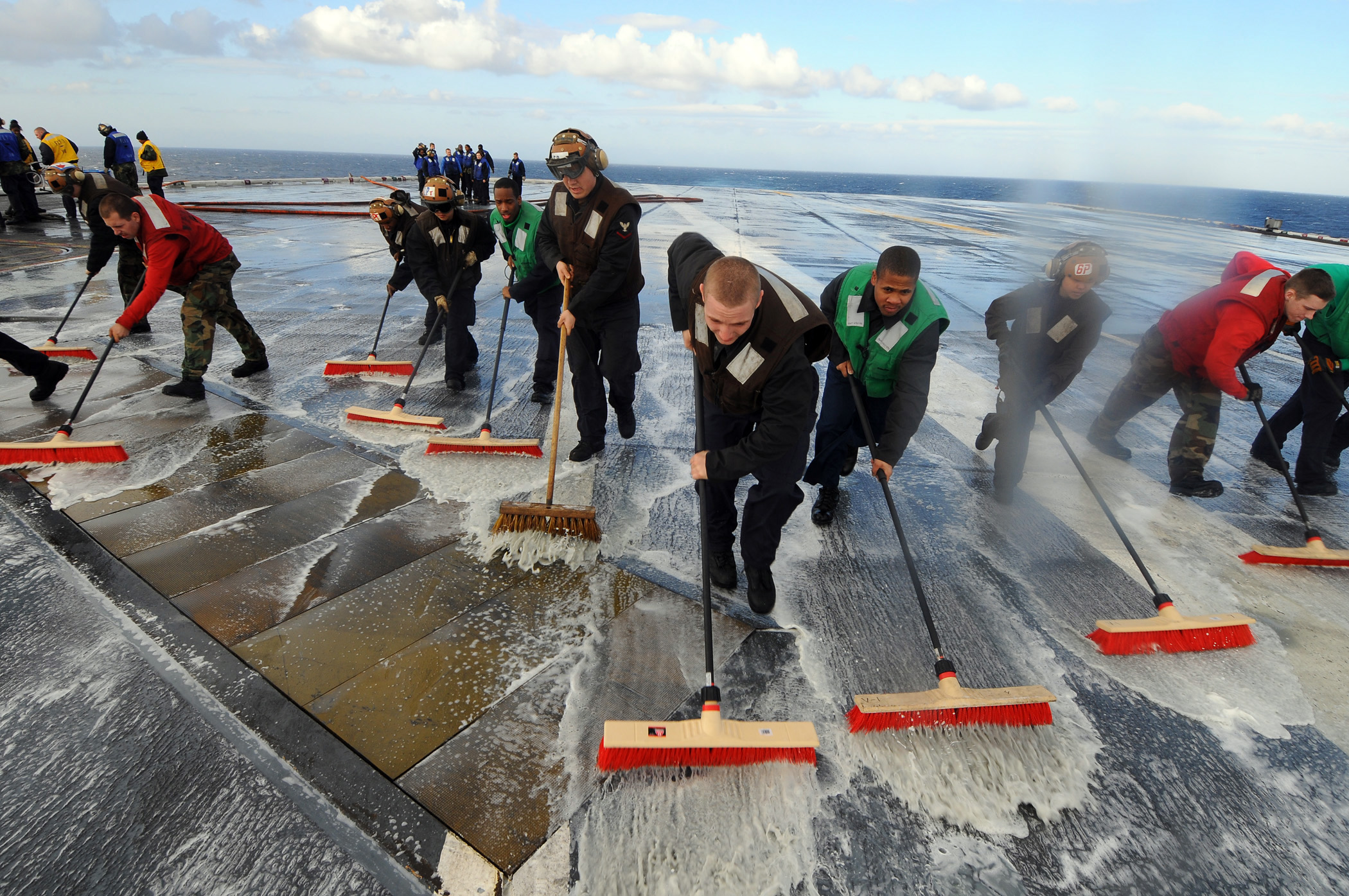 MEDITERRANEAN SEA (Jan. 16, 2010) Sailors aboard the Nimitz-class aircraft carrier USS Dwight D. Eisenhower (CVN 69) scrub dirt from the flight deck. Dwight D. Eisenhower is deployed in the U.S. 5th and 6th Fleet areas of responsibility. (U.S. Navy photo by Mass Communication Specialist 3rd Class Matthew Bookwalter/Released)